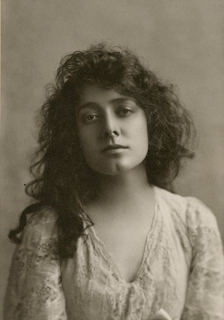 A photograph of Julia Marlowe in Colinette more information